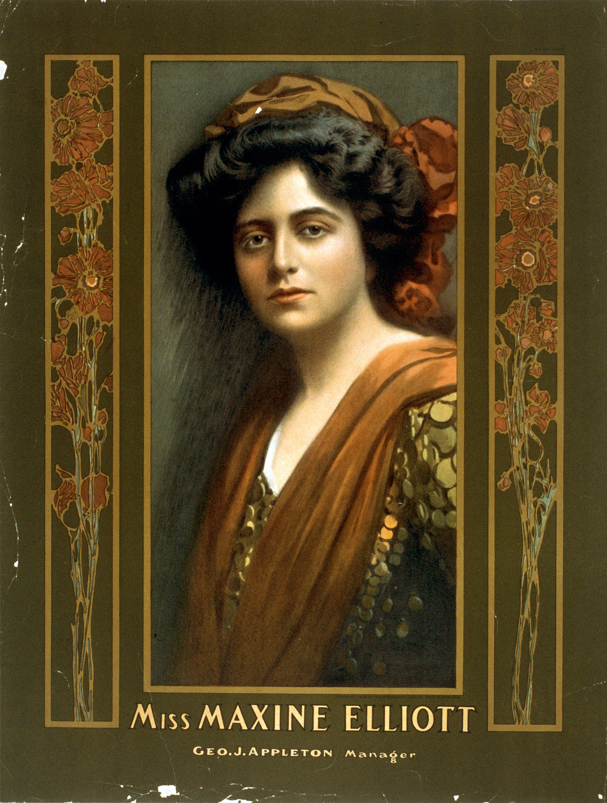 Actress Maxine Elliott in a color lithograph theater poster